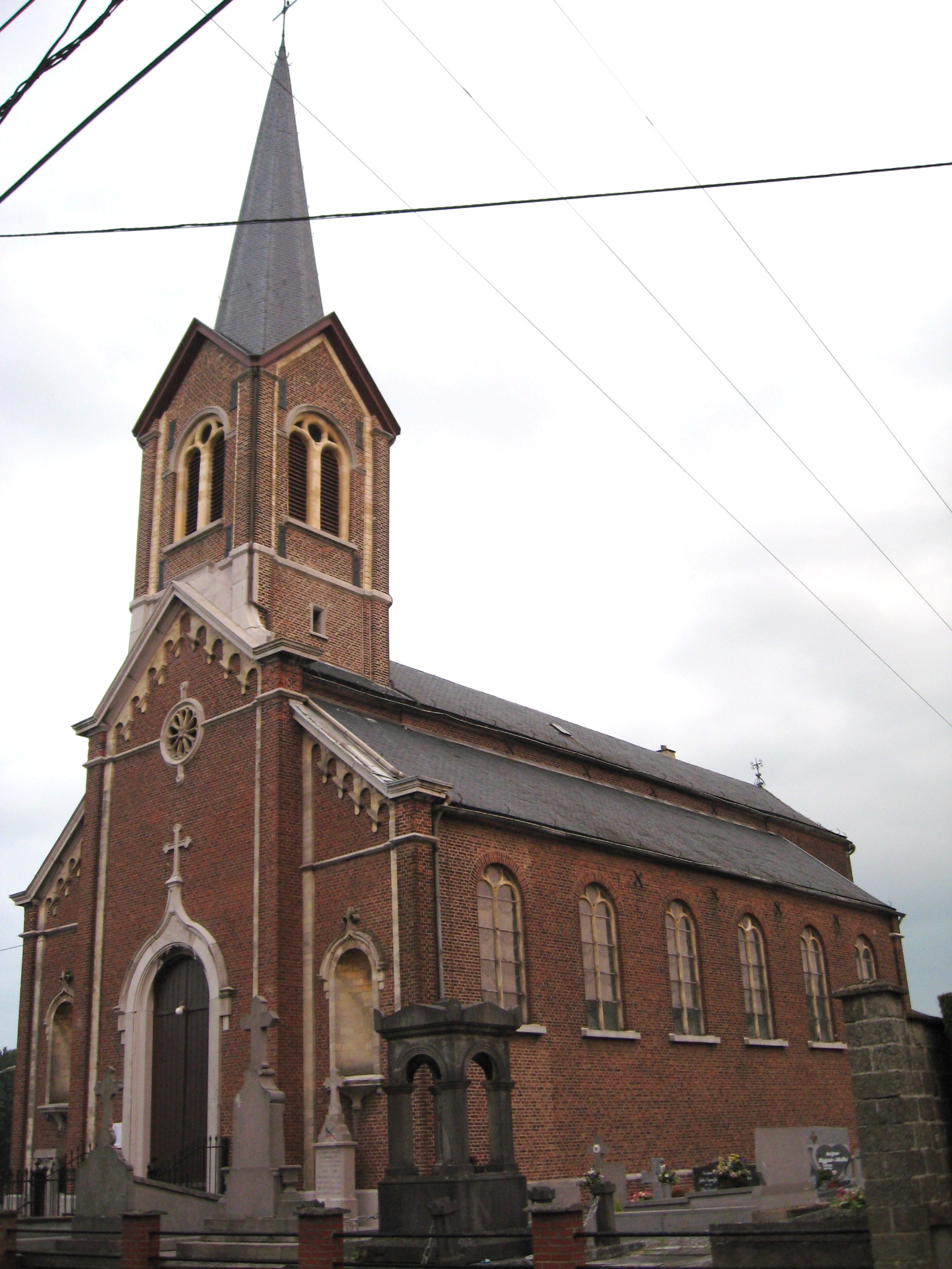 Church of Saint Gertrude in Otrange, Oreye, Liège, Belgium